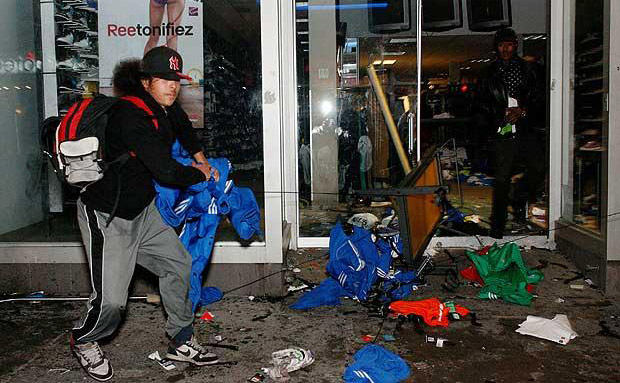 Foot locker looting photo